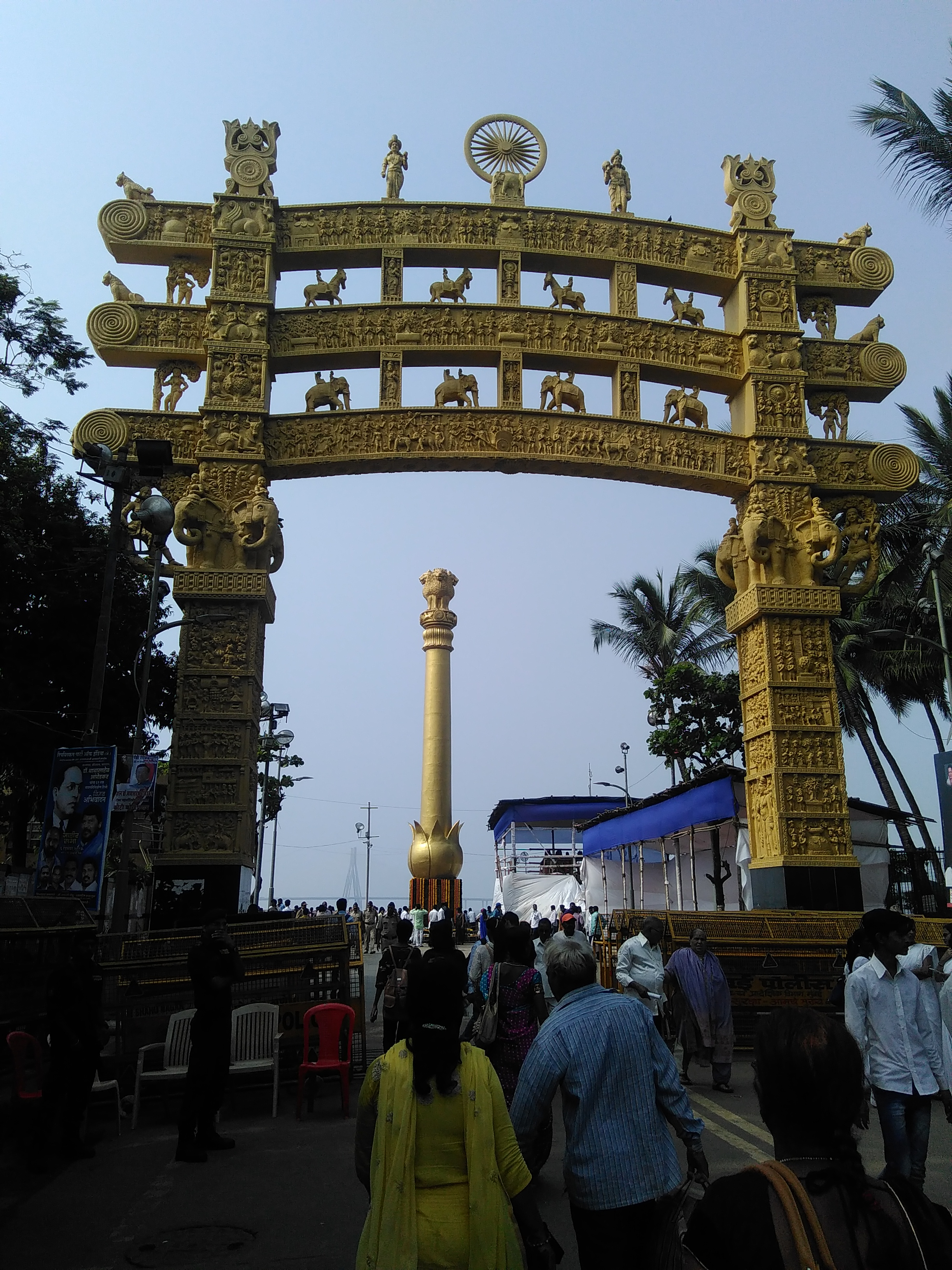 Ashoka pillar, Chaitya Bhoomi, Mumbai, Maharashtra.